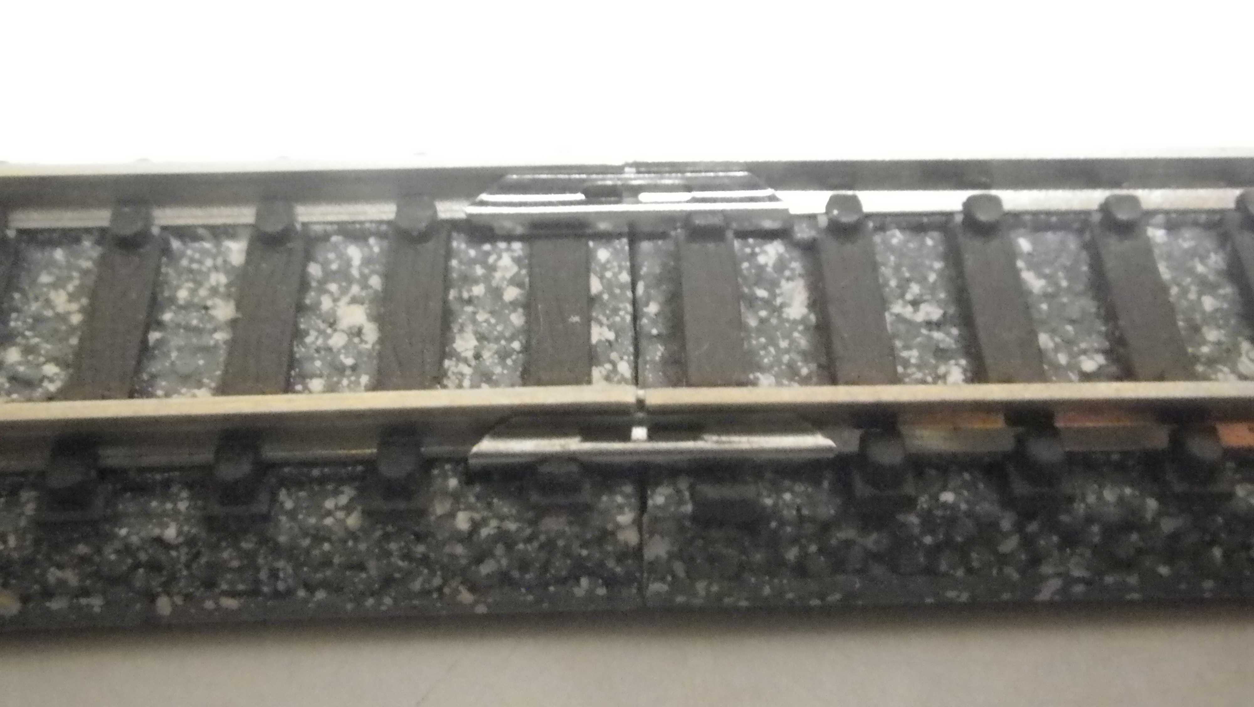 It is a photograph of the usage of Joiner who connects the railway track of the model train set.